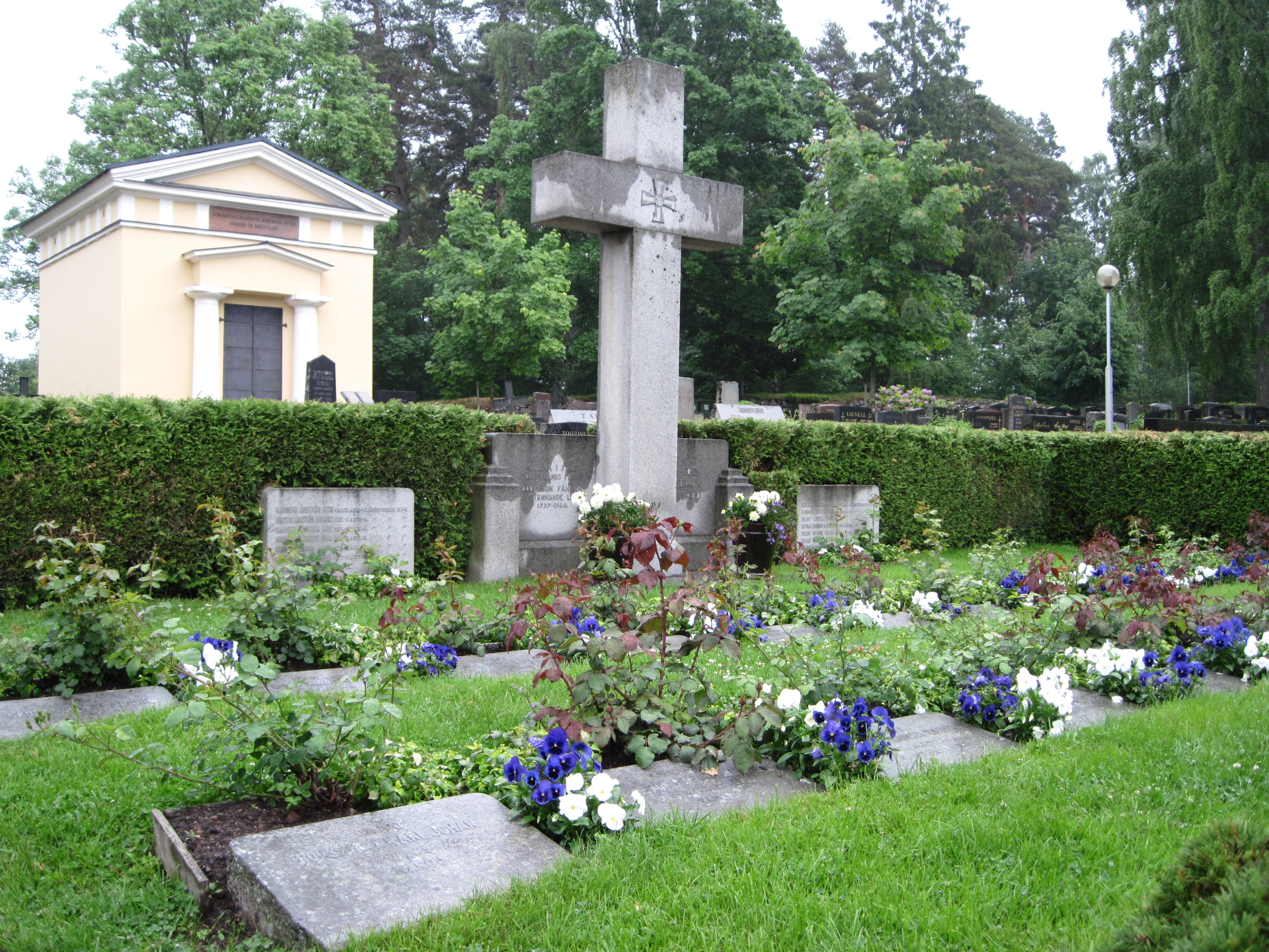 Military cemetary at church in Bromarv, Finland